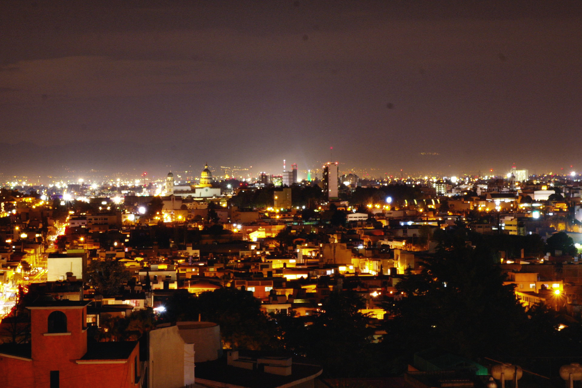 Panoramica, Toluca de Lerdo, Estado de México, México.